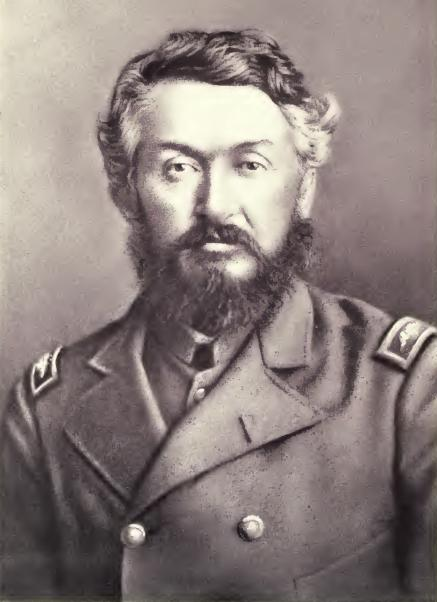 Portrait of Lieutenant Colonel Robert A. Hardaway, officer of the Confederate Army